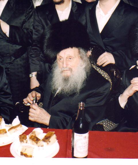 Grand Rabbi Avrohom Yissochor Englard of Radzin כ"ק רבי אברהם ישכר מראדזין